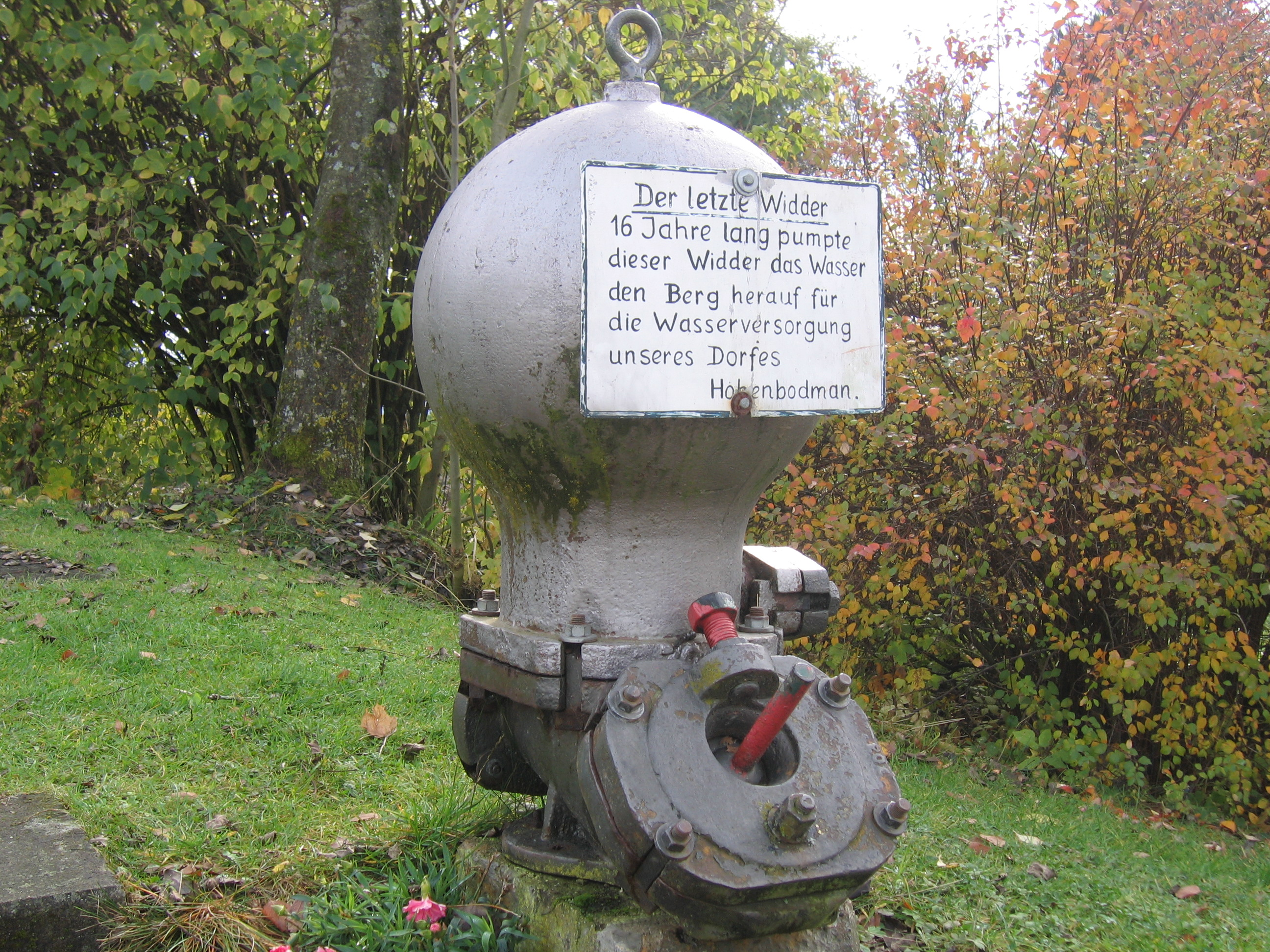 Germany - Baden-Württemberg - Bodenseekreis - Owingen - Hohenbodman: hydraulic ram